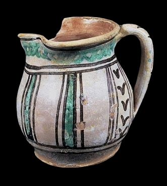 Produzione pisana